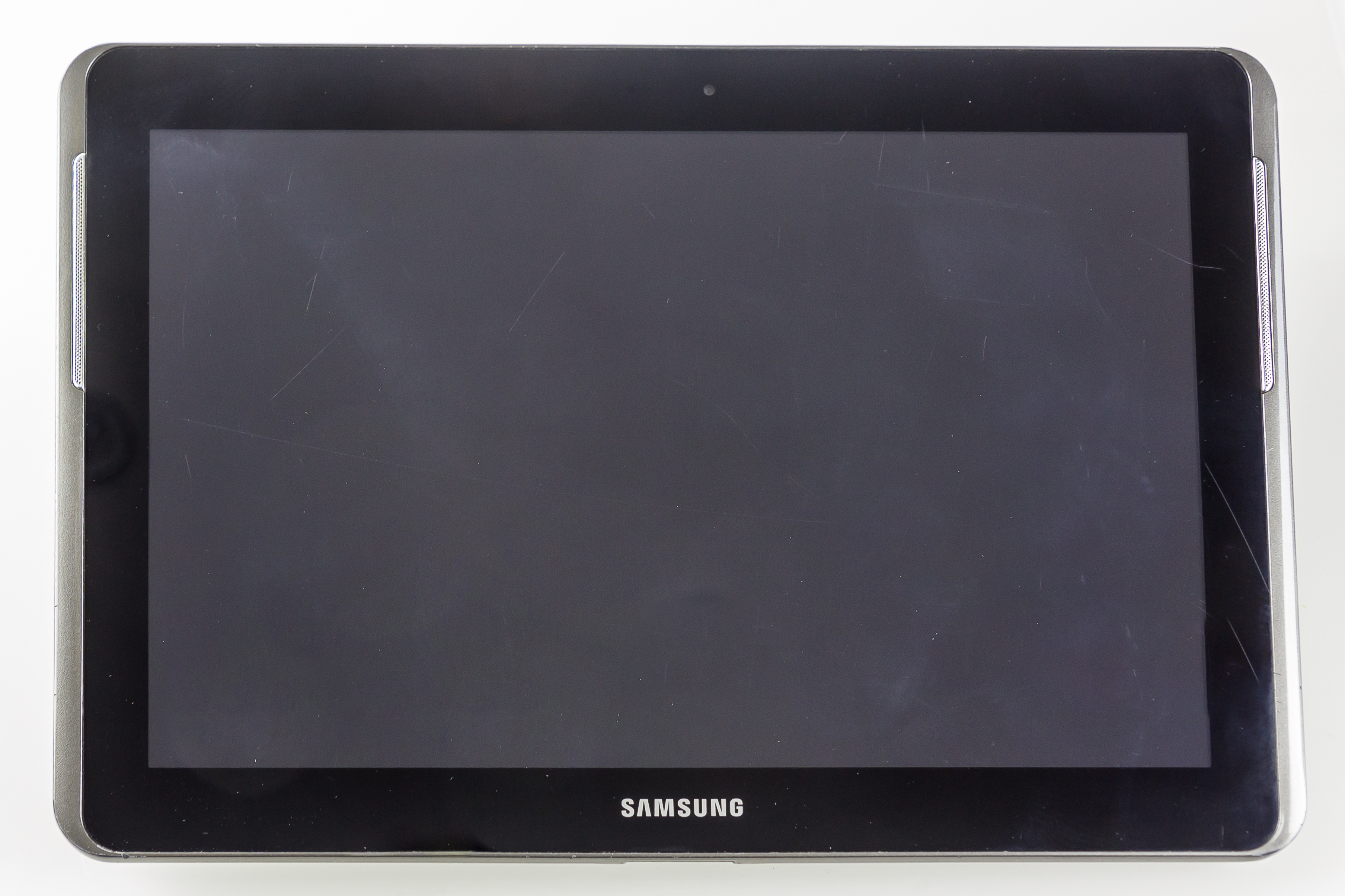 Samsung Galaxy Tab 2 10.1